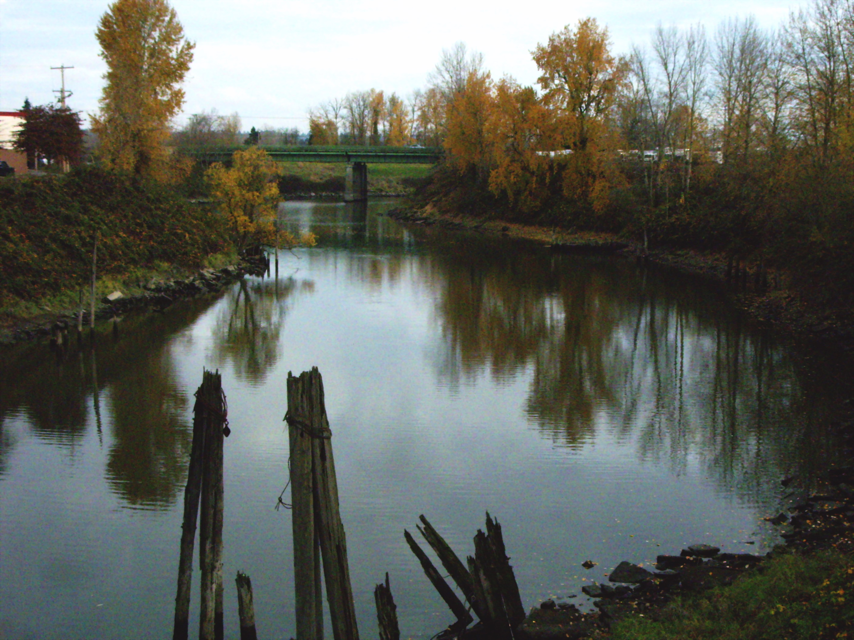 Columbia Slough looking eastward from the N Vancouver Ave crossing. US Hwy 99 crosses the green bridge.